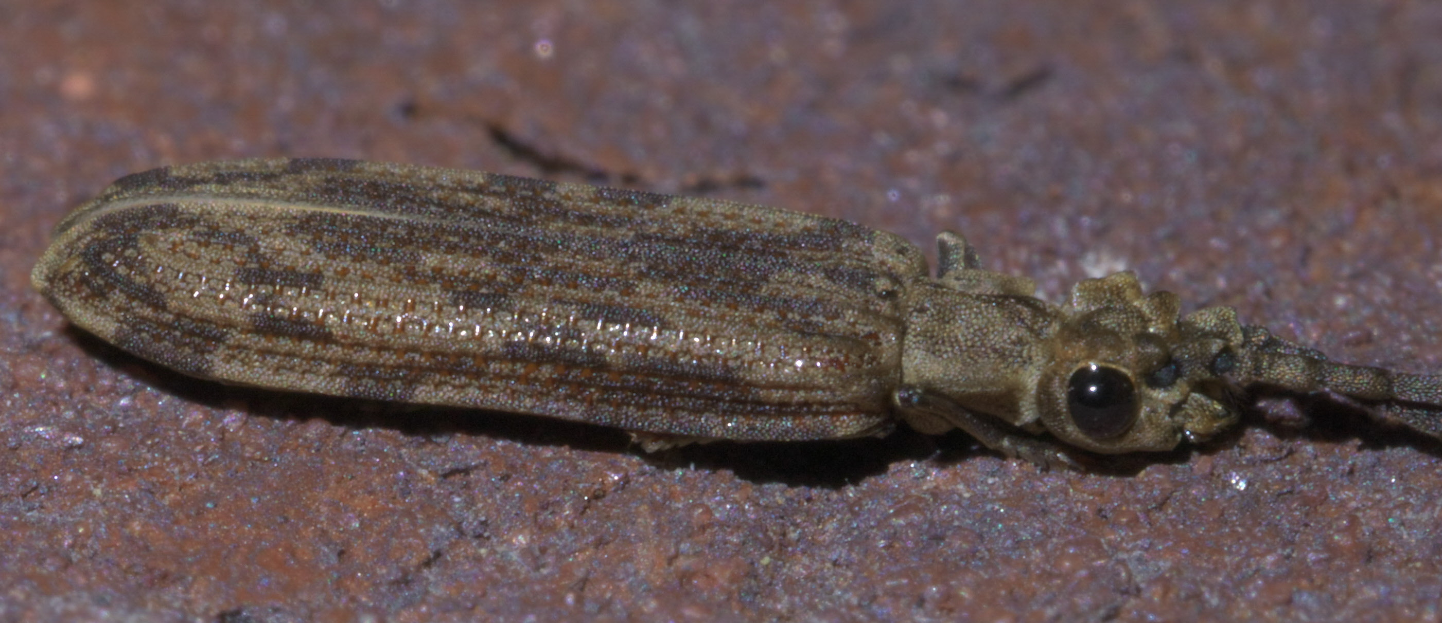 Tenomerga cinerea, Family: Reticulated Beetles, Size: 8.8 mm, ID Confidence: 92